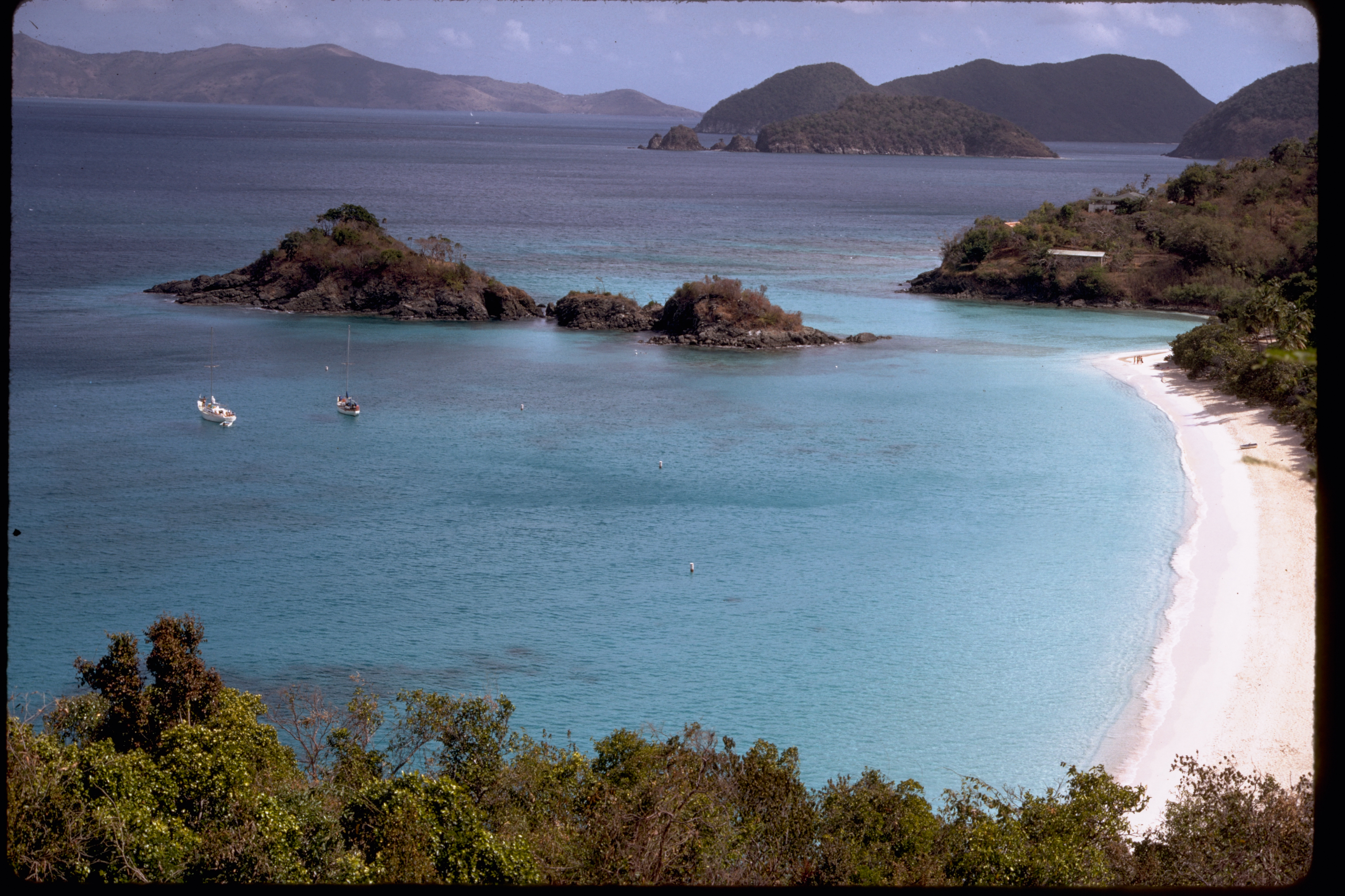 Virgin Islands National Park’s hills, valleys and beaches are breath-taking. However, within its 7,000 plus acres on the island of St. John is the complex history of civilizations - both free and enslaved - dating back more than a thousand years, all who utilized the land and the sea for survival.